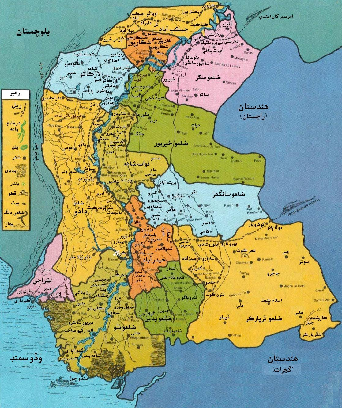 Map of the Province of Sindh, Pakistan, labeled in Sindhi language سنڌي: سنڌ